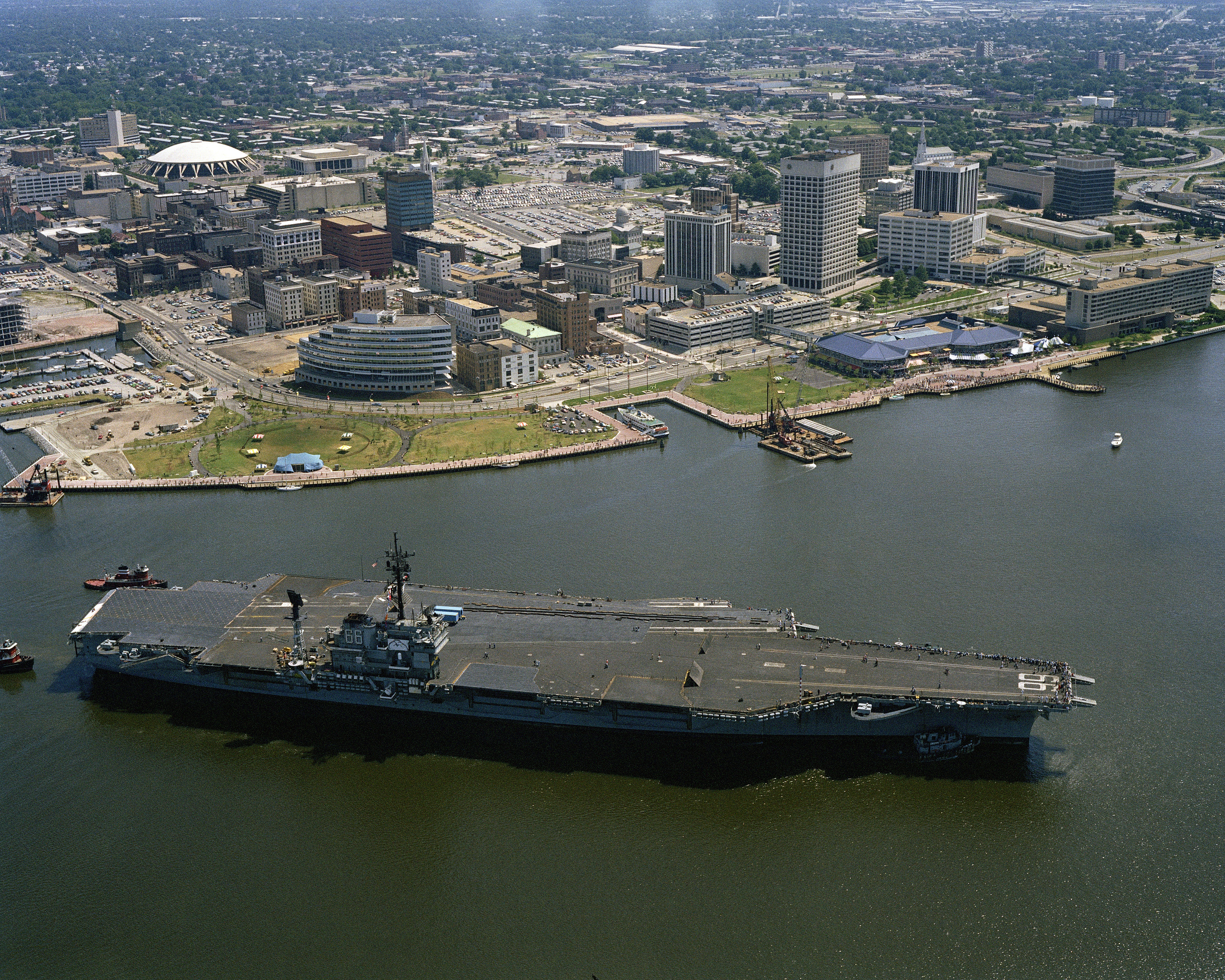 An aerial starboard view of large harbor tugs assisting the aircraft carrier USS AMERICA (CV 66) up the Elizabeth river towards the shipyard. The city of Norfolk, VA is in the background Location: NORFOLK, VIRGINIA (VA) UNITED STATES OF AMERICA (USA)